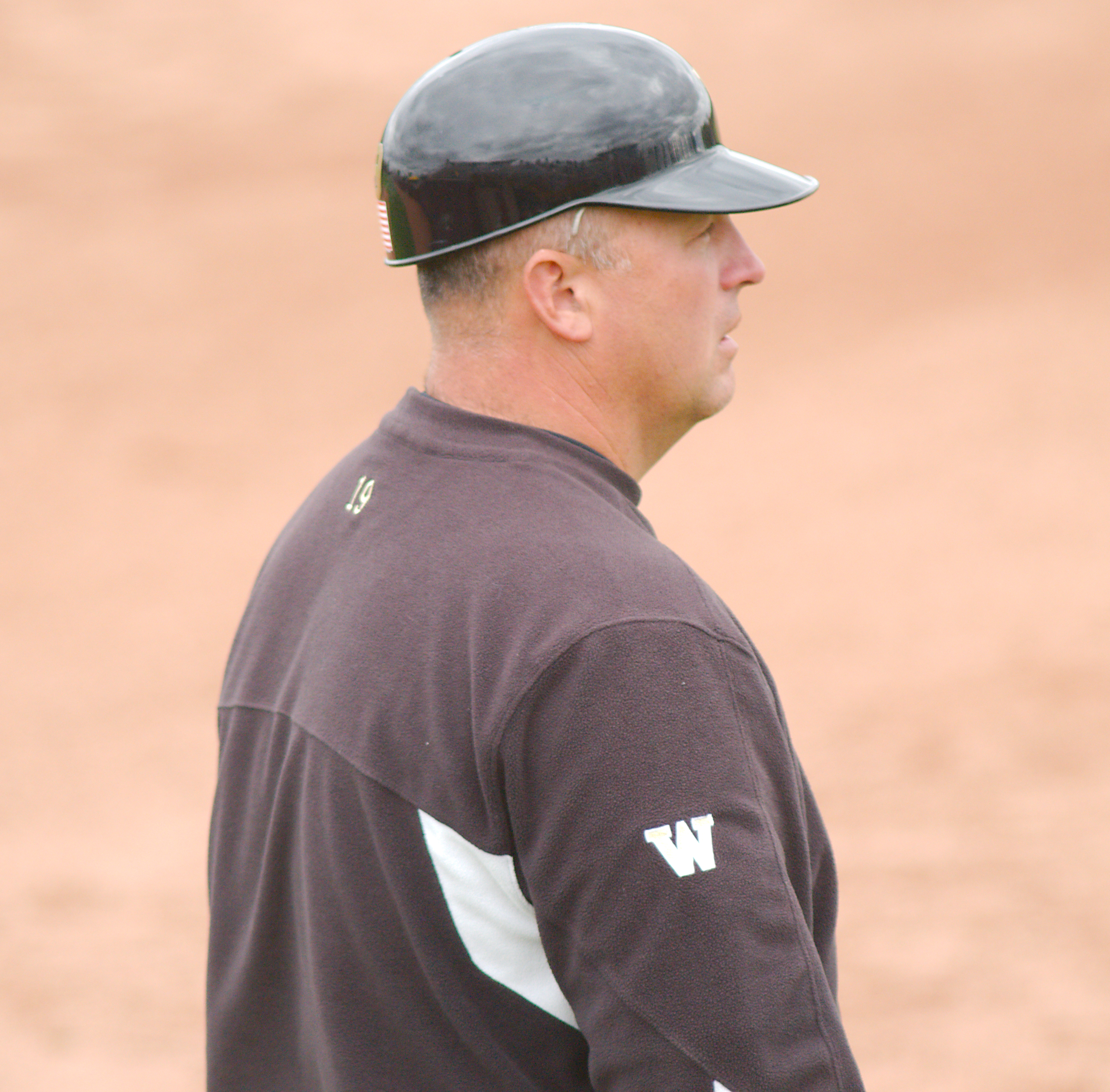 Coach Billy Gernon with the Western Michigan Broncos during a 2014 game at Theunissen Stadium in Mount Pleasant, Michigan.